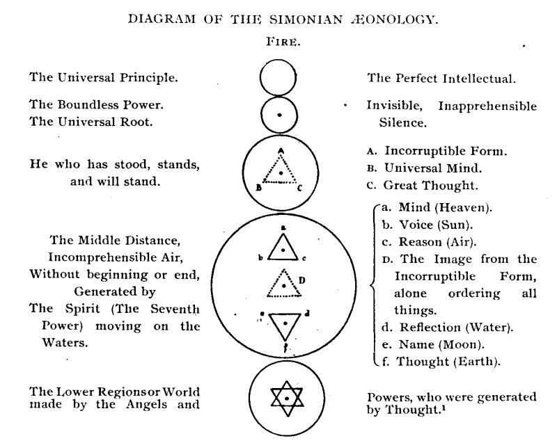 Diagram of the Simonian Aeonology Mind — Thought Heaven — Earth Voice — Name Sun — Moon Reason — Desire Air — Water